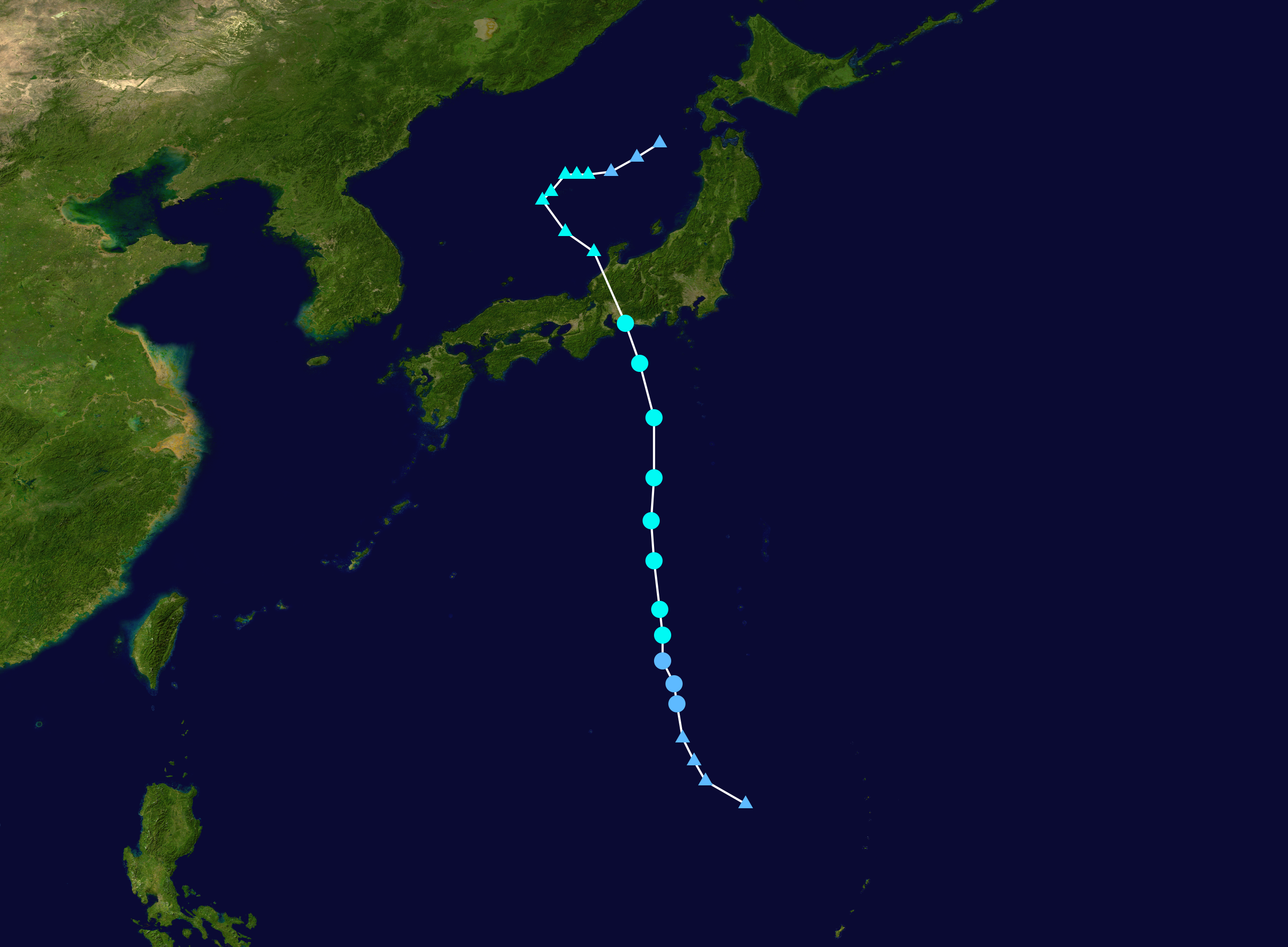 Track map of Severe Tropical Storm Etau of the 2015 Pacific typhoon season. The points show the location of the storm at 6-hour intervals. The colour represents the storm's maximum sustained wind speeds as classified in the Saffir–Simpson scale (see below), and the shape of the data points represent the nature of the storm, according to the legend below. Saffir–Simpson scale Tropical depression≤38 mph≤62 km/h Category 3111–129 mph178–208 km/h Tropical storm39–73 mph63–118 km/h Category 4130–156 mph209–251 km/h Category 174–95 mph119–153 km/h Category 5≥157 mph≥252 km/h Category 296–110 mph154–177 km/h Unknown Storm type Tropical cyclone Subtropical cyclone Extratropical cyclone / Remnant low / Tropical disturbance / Monsoon depression